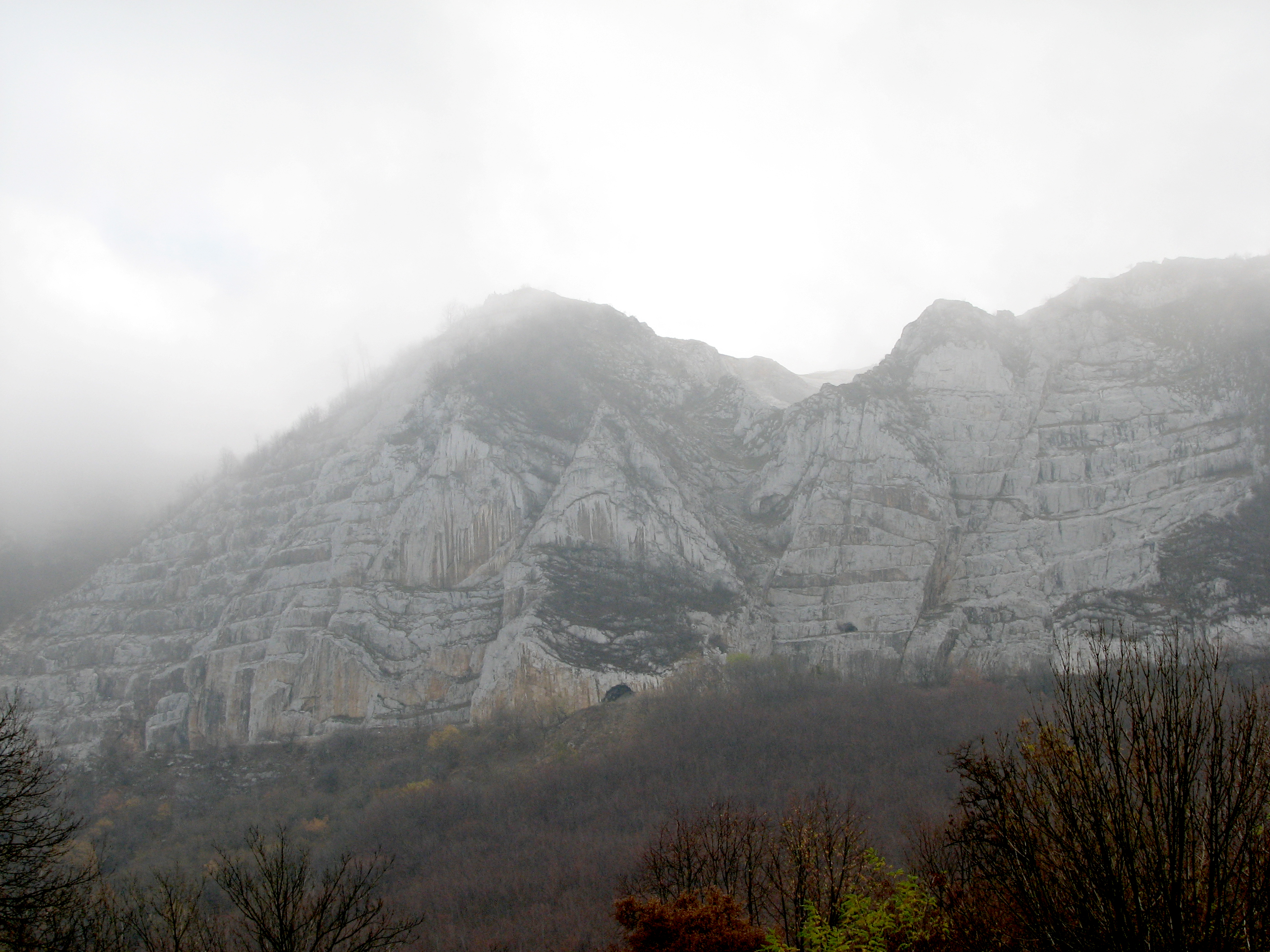 Bél-kő, a peak in the Bükk mountains in Hungary in a foggy November day